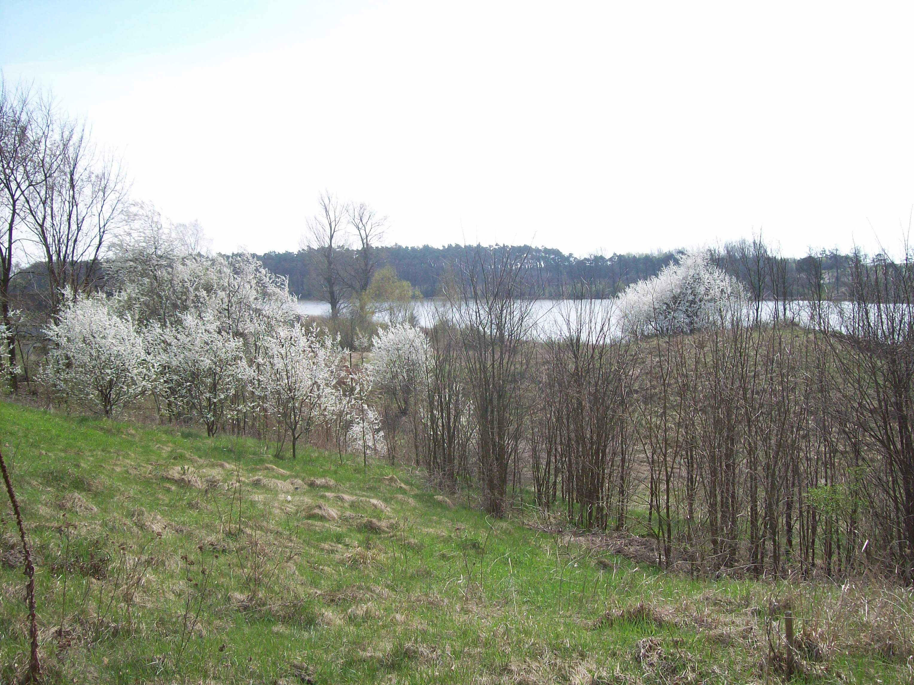 Lake Swiesz - sight from palace side Swiesz Poland April 2012